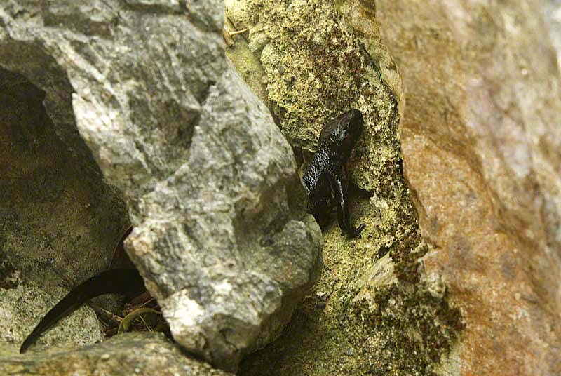 Photo taken on the Motobu Peninsula of Okinawa, Japan. On IUCN Red List of Threatened Amphibians. Also known as Fire-bellied Newts, the Cynops ensicauada is only found in the Ryukyu Island Chain of Japan.